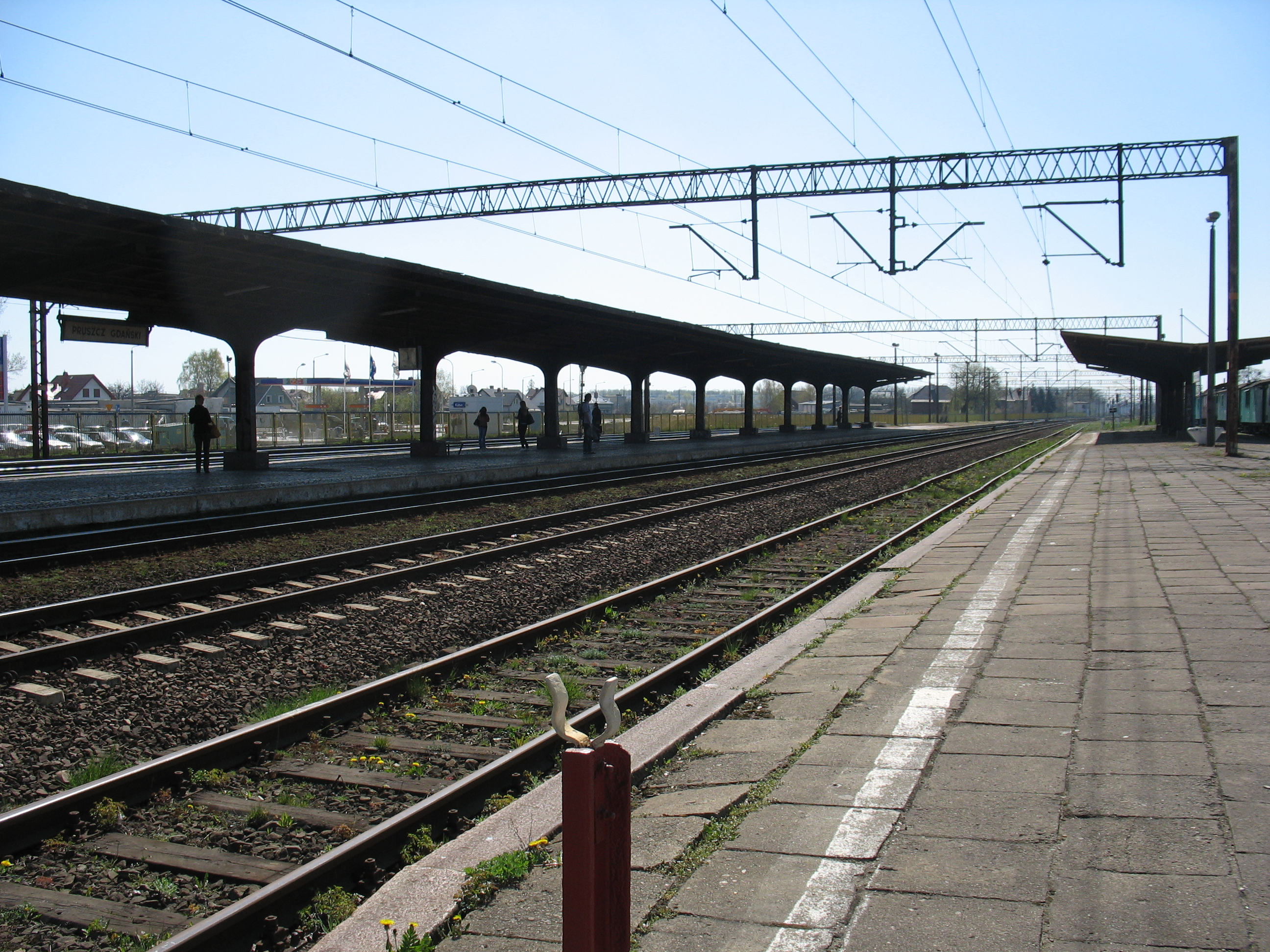 Rail station in Pruszcz Gdanski, pomorskie, Poland